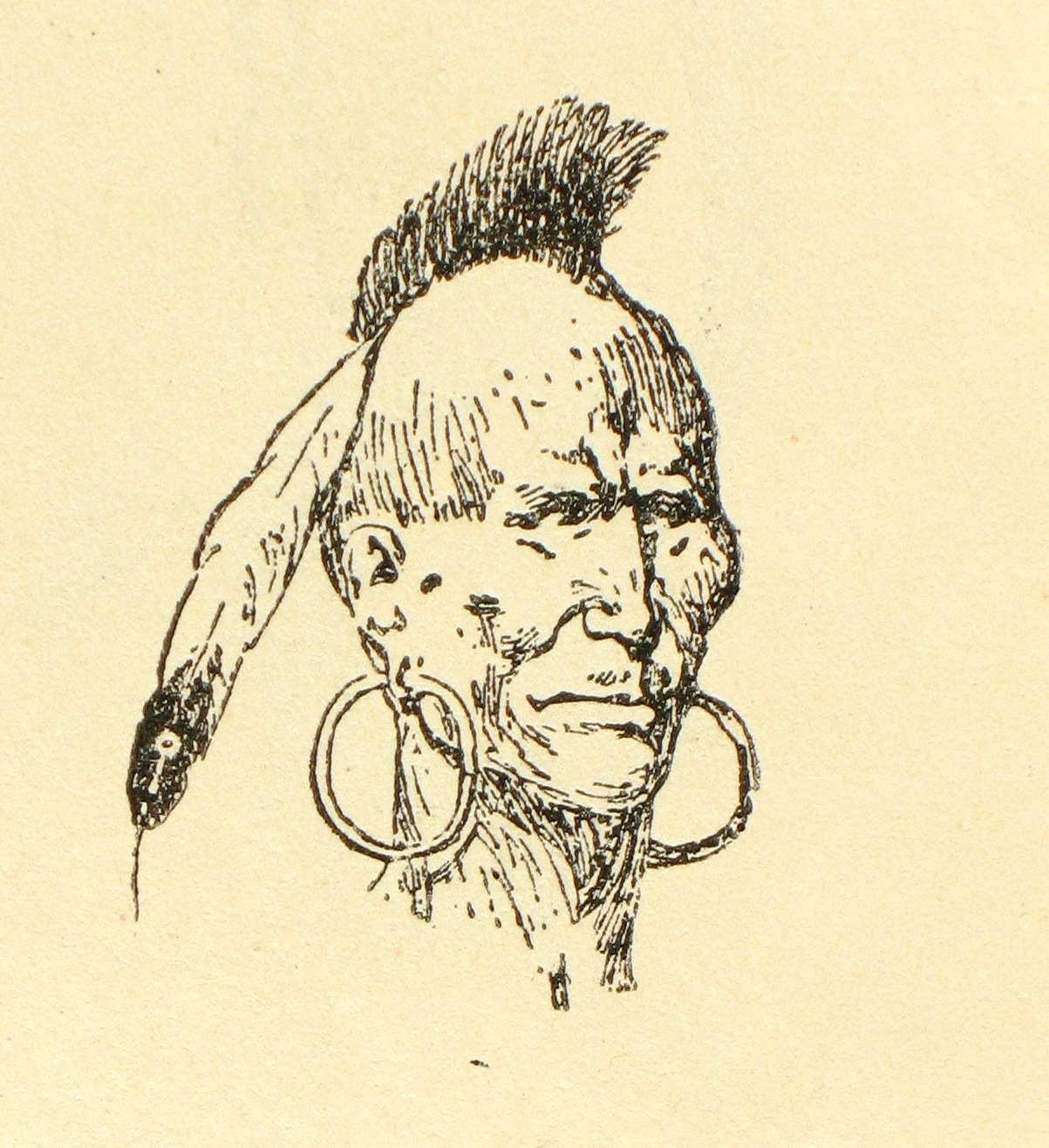 Henry Wadsworth Longfellow, The Song of Hiawatha, Moscow, 1931. Published by OGIZ.